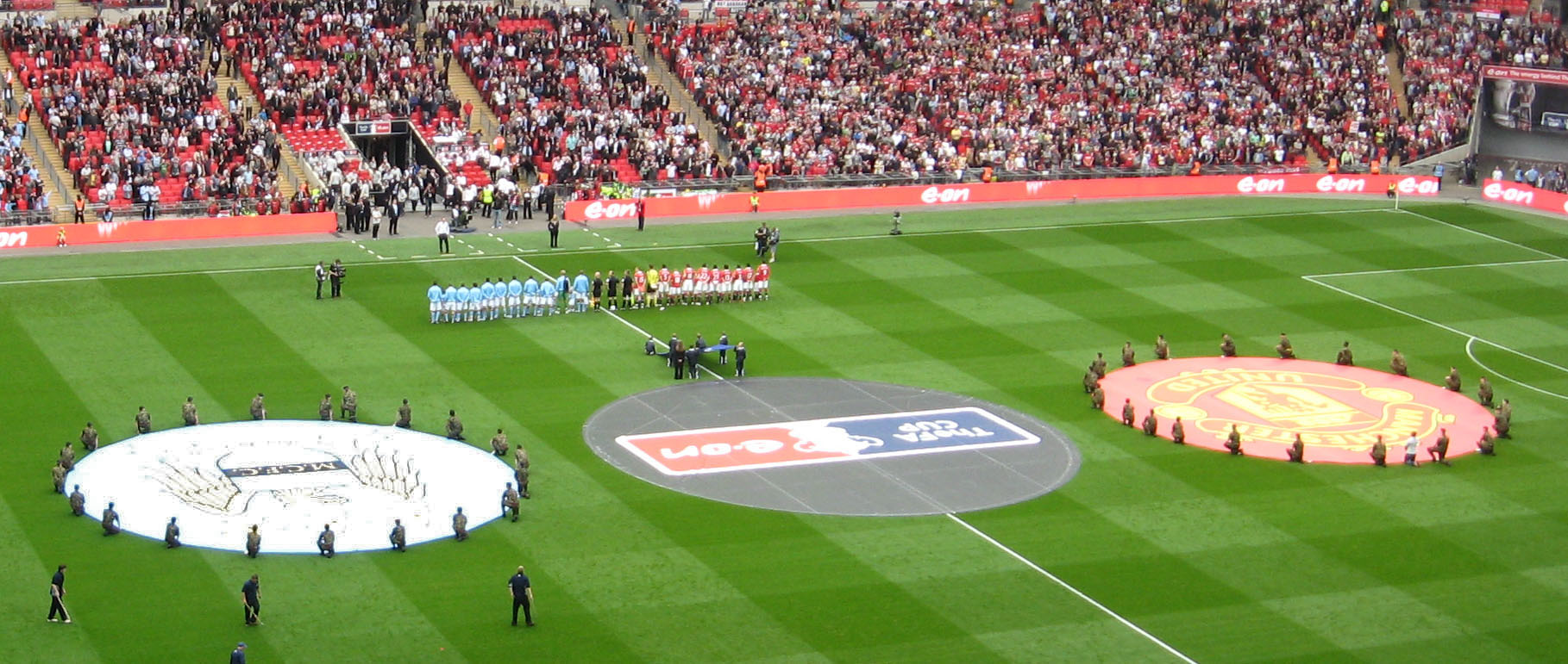 The teams of Manchester City F.C. and Manchester United F.C. line up prior to kick-off in the semi-final of the 2011 FA Cup at Wembley Stadium.